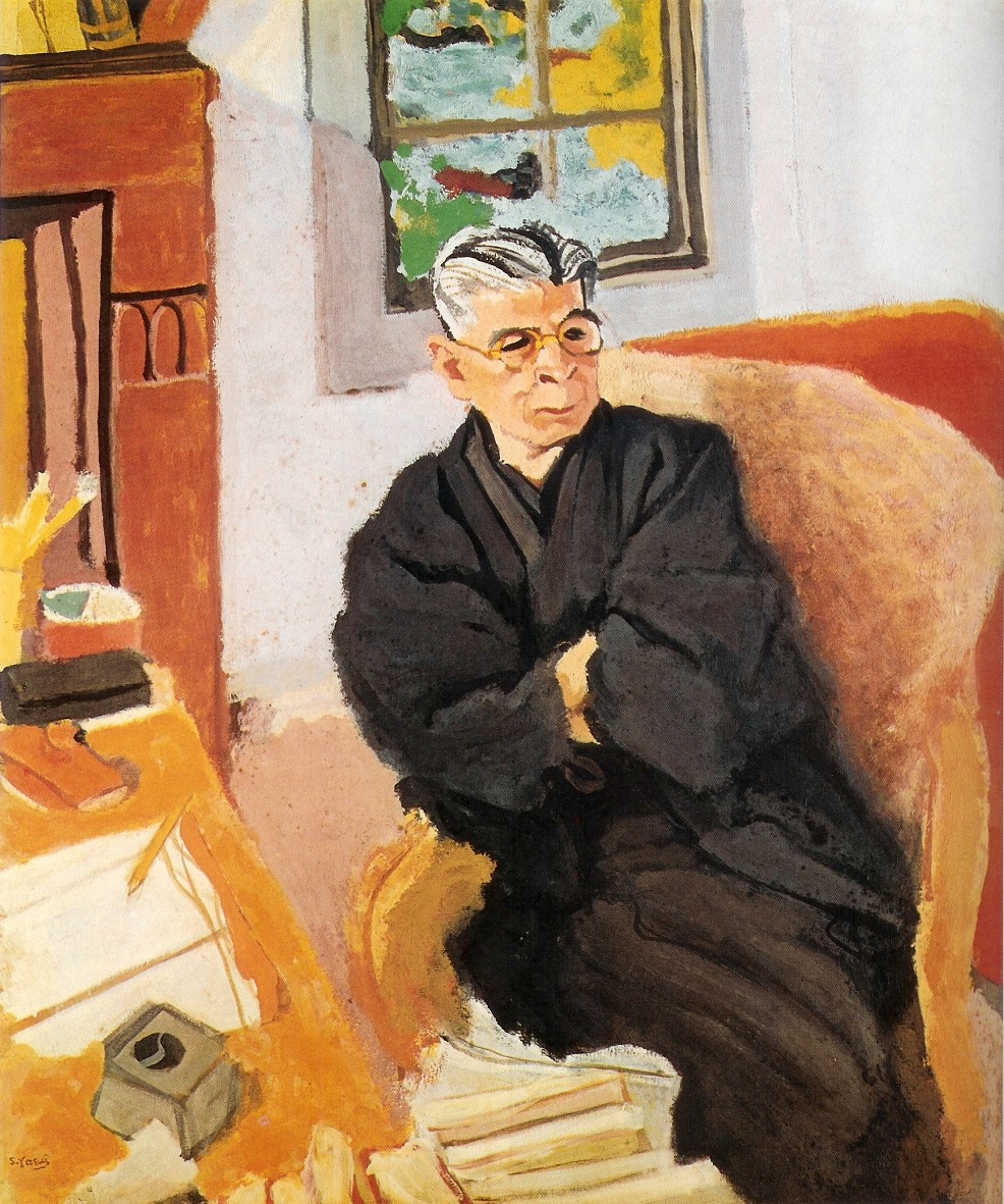 Paining Fukai Eigo 1937